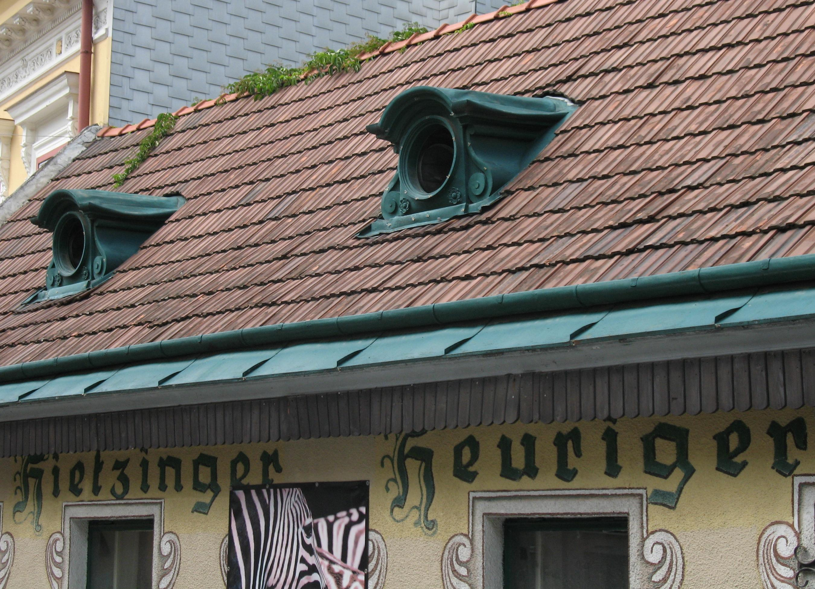 Wine tavern in Vienna, Austria